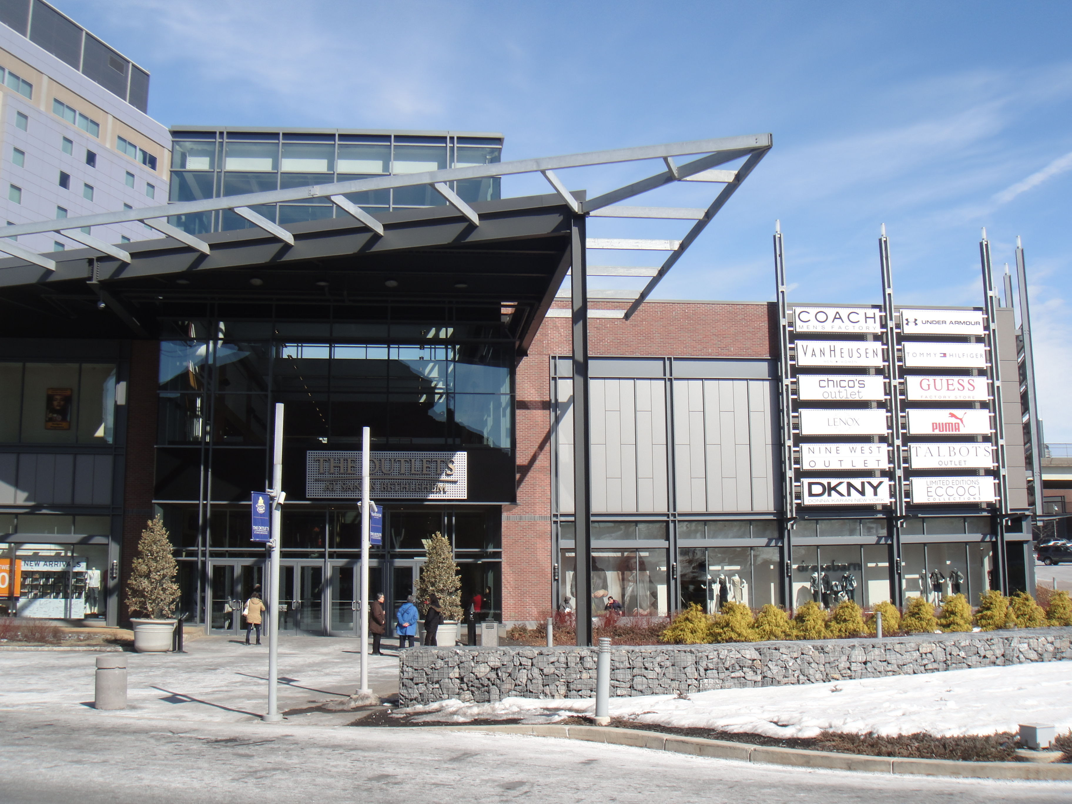 View of the main entrance to the The Outlets at Sands Bethlehem.